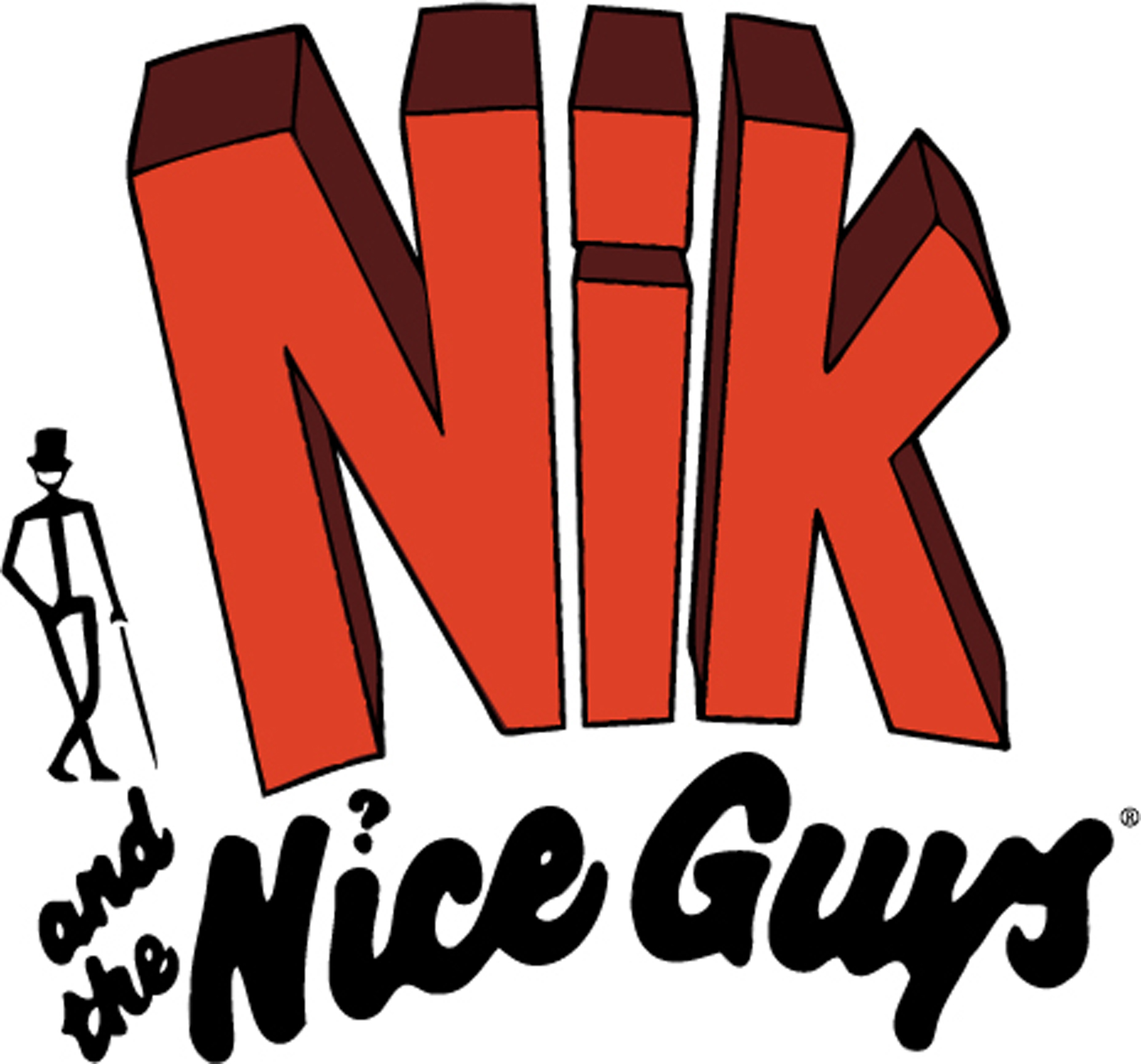 Nik and the Nice Guys band logo